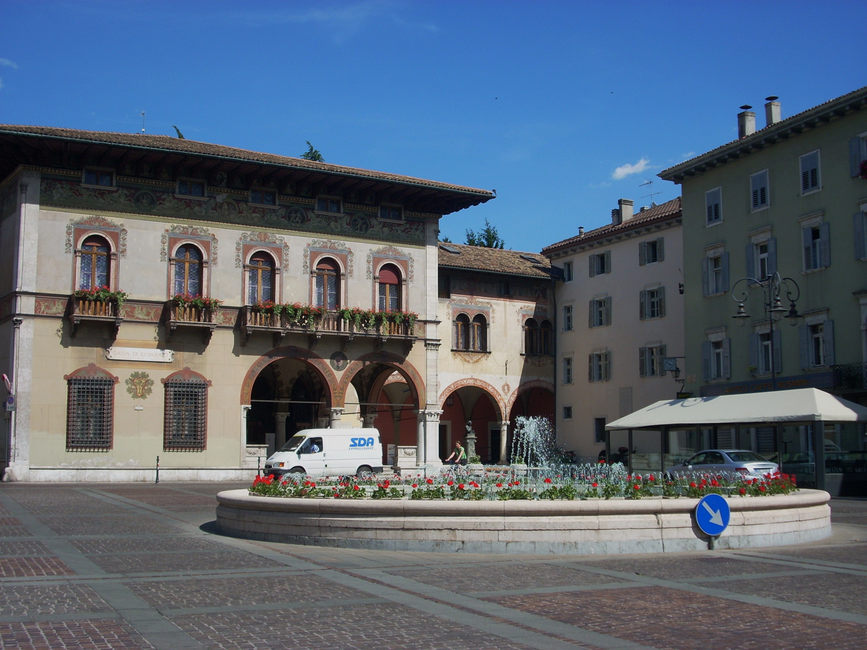 The Rosmini Fountain in Rovereto, Trentino, Italy